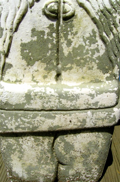 A replica of Brâncuşi's The Kiss used as a doorstop in Portland, Oregon.